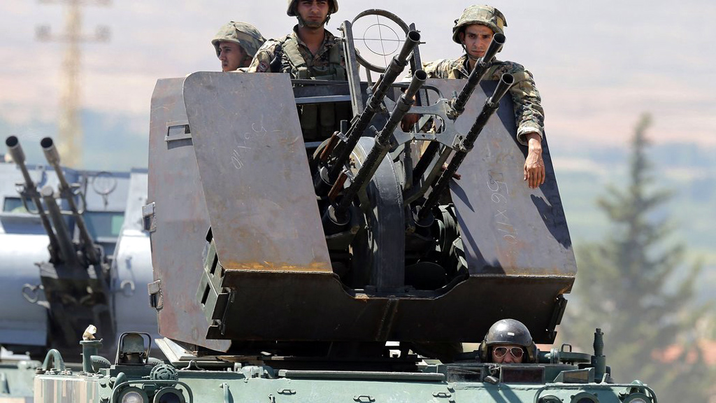 Lebanese M113A1 with Locally-Made ZPU4 Turret